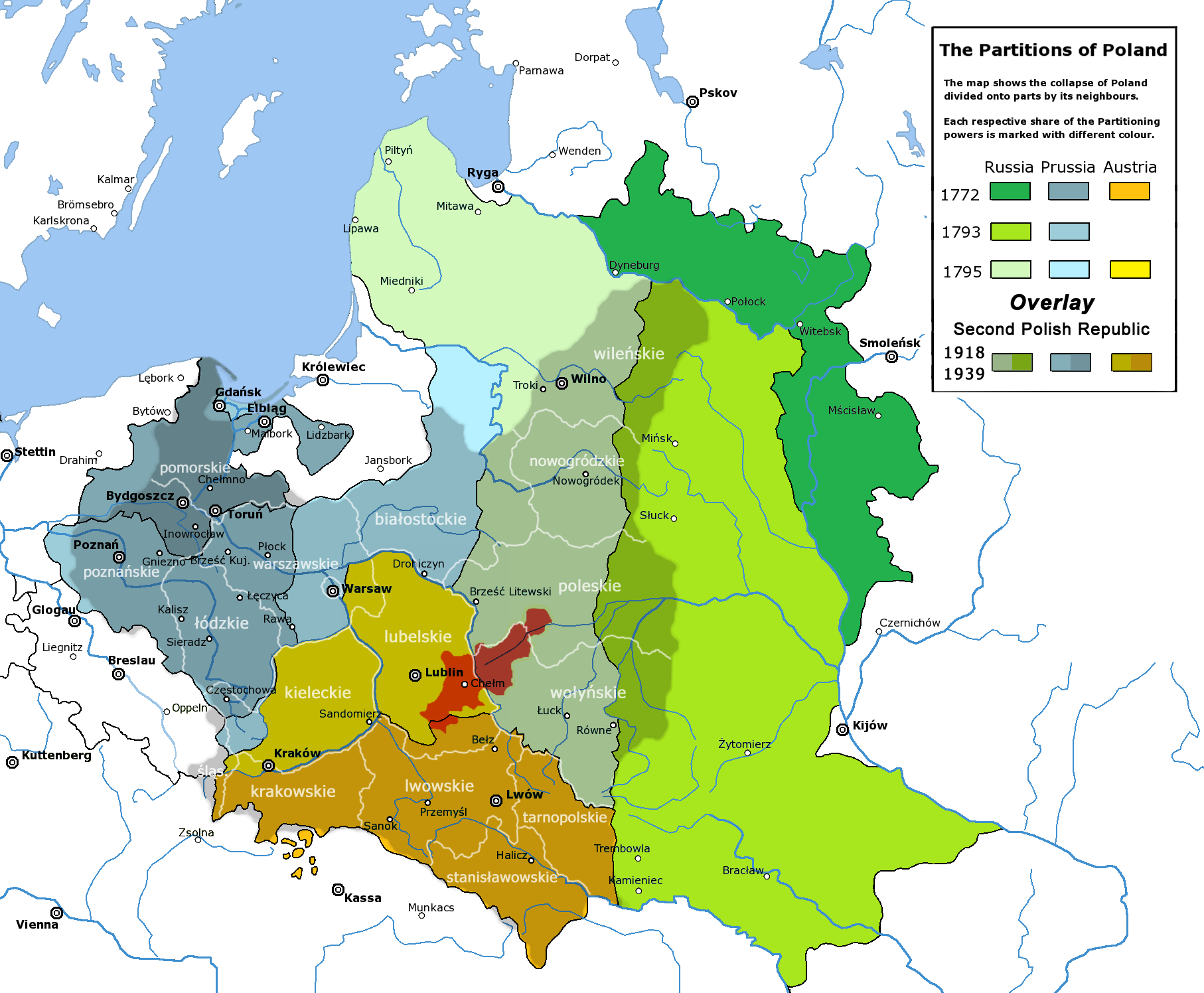 Partitions of the Polish-Lithuanian Commonwealth in 1772, 1793 and 1795, overlaid with the borders of the Second Polish Republic, 1918-1939; with Chełm Land or Ziemia chełmska in Polish, highlighted in burgundy.